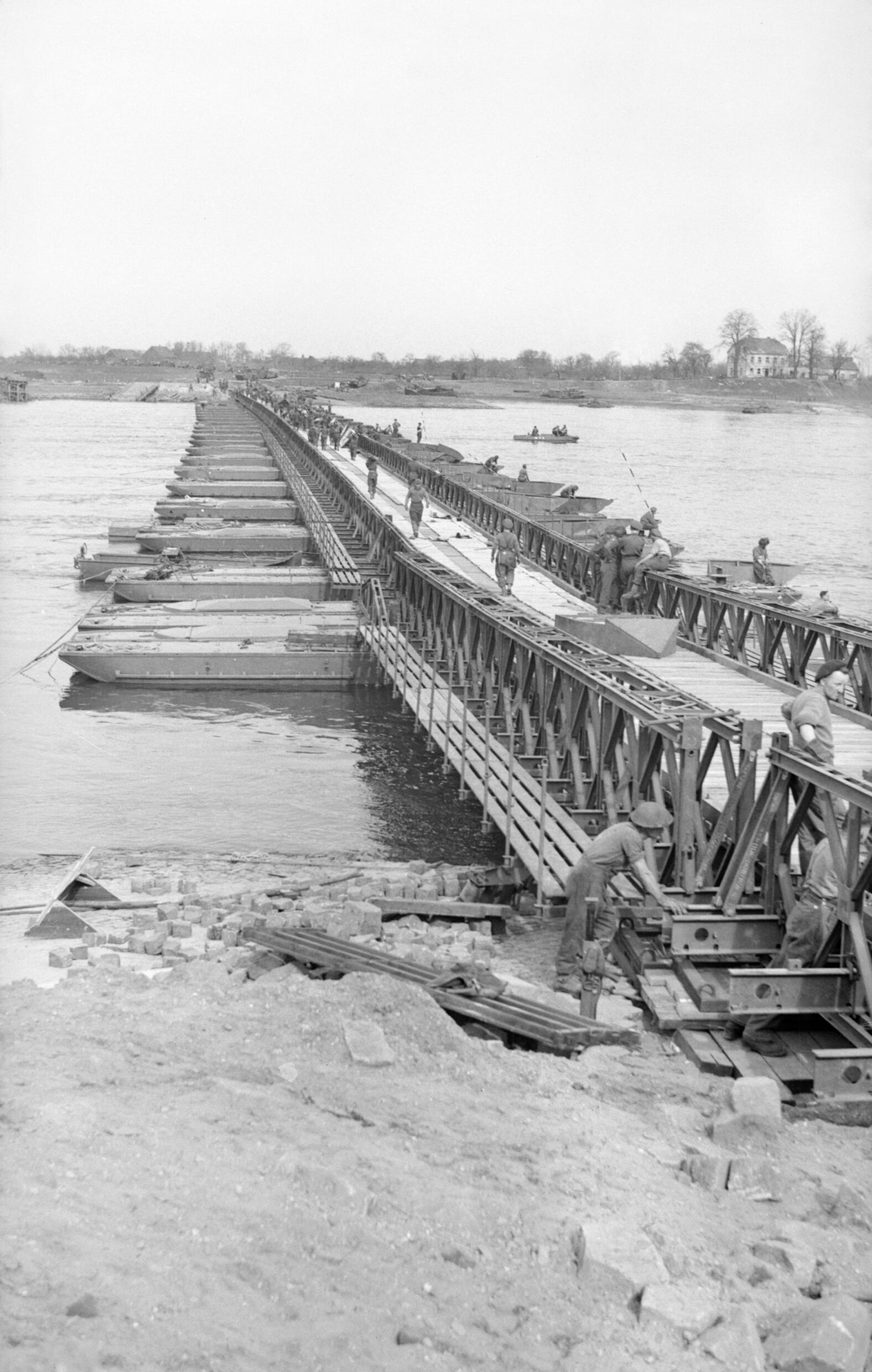 The British Army in North-west Europe 1944-45 A Class 40 Bailey bridge over the Rhine nears completion.